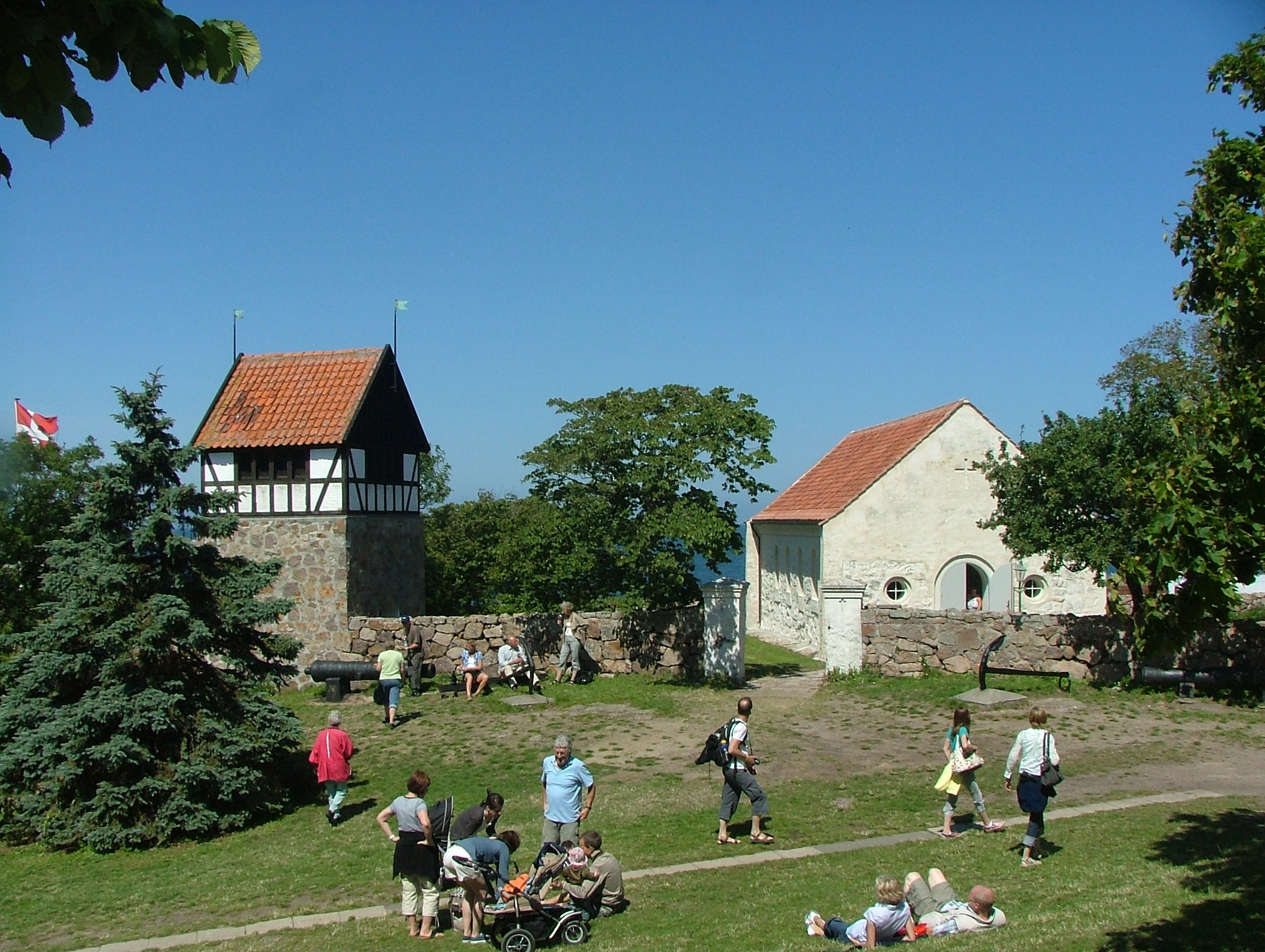 The church on the island of Christiansø, east o9gf Bornholm, Denmark